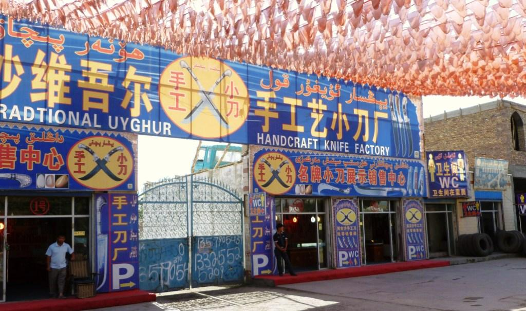 Photo taken of a factory where the famous Yengisar knives are made